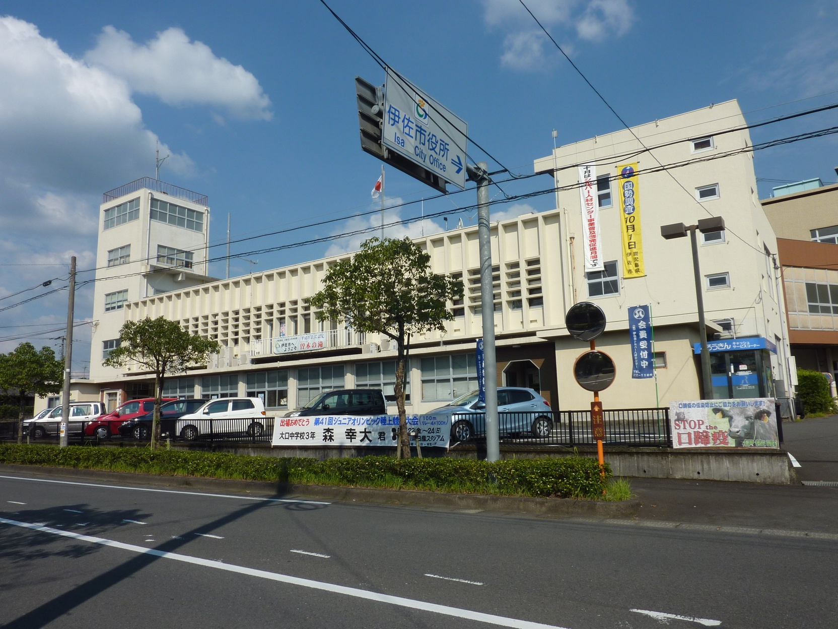 Isa City Office (October, 2010 - Kagoshima Prefecture, Japan)